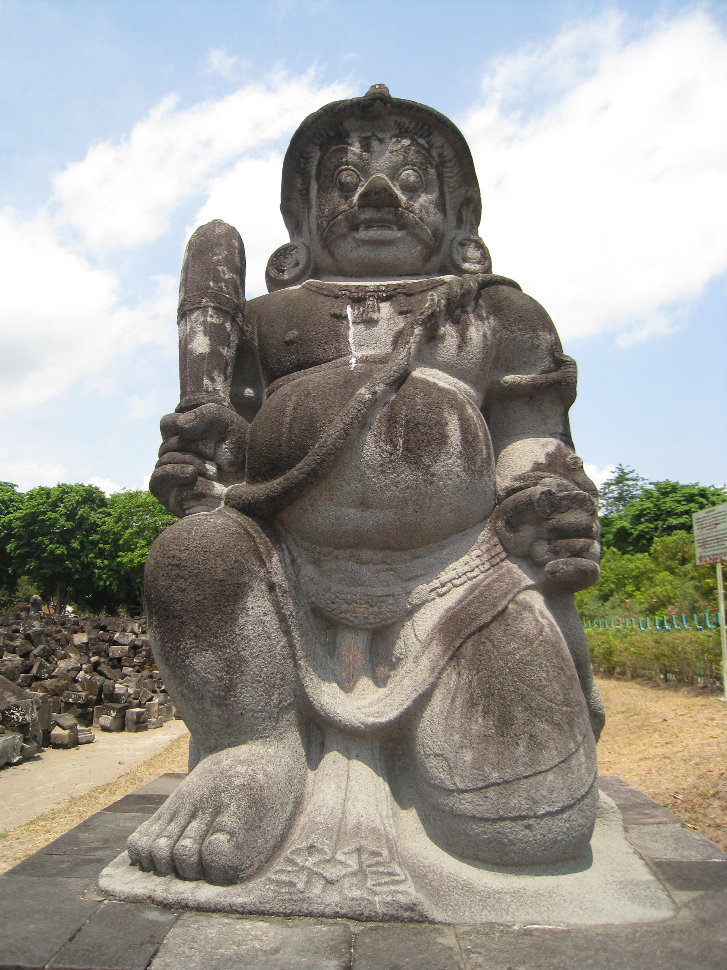 003 Candi Sewu on the Prambanan Plain, Java Photograph of Candi Sewu in Java, Indonesia taken by Anandajoti.